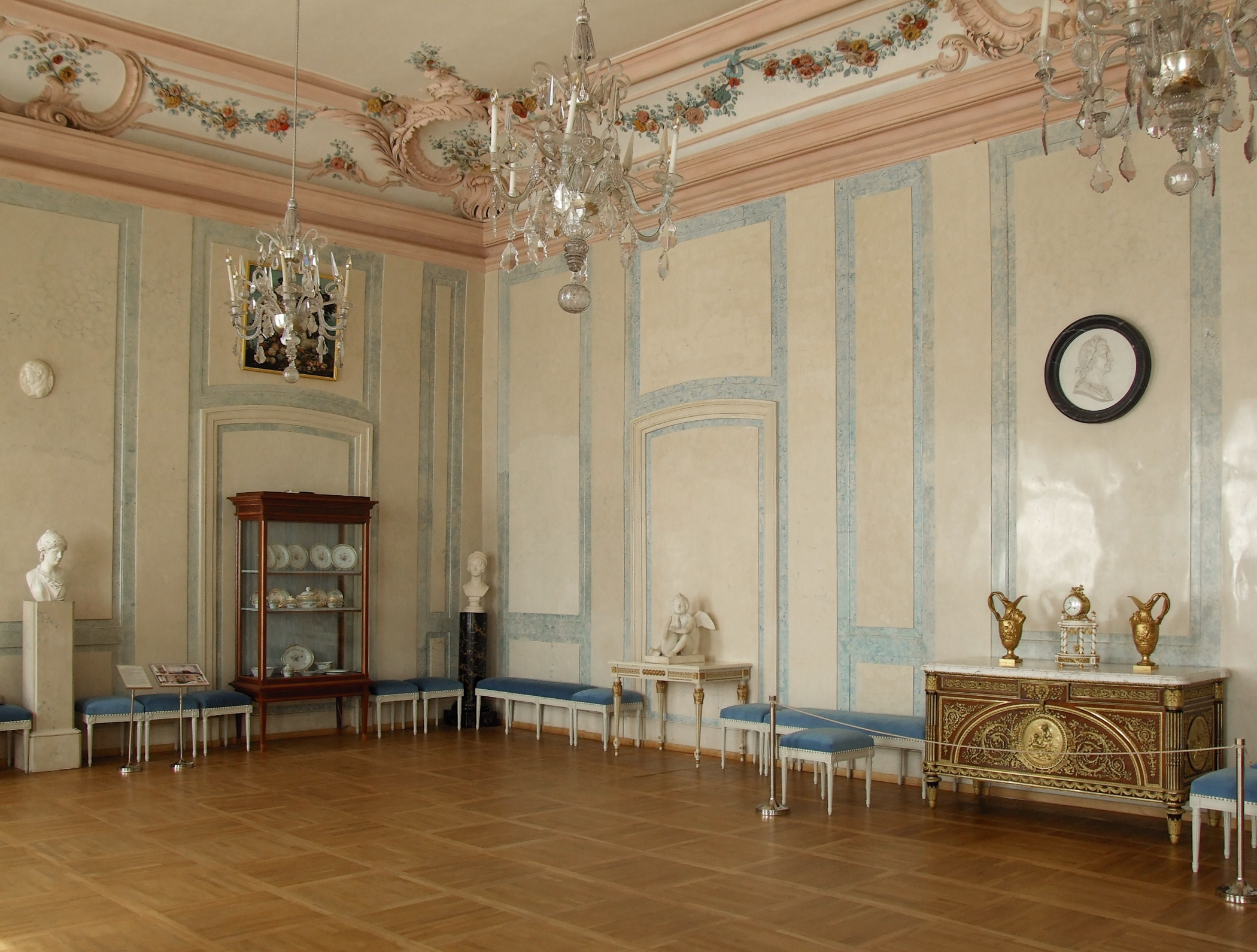 Rundāle Palace (Ruhental) - the Marble Hall (Duke's Dining Room) from 1760s